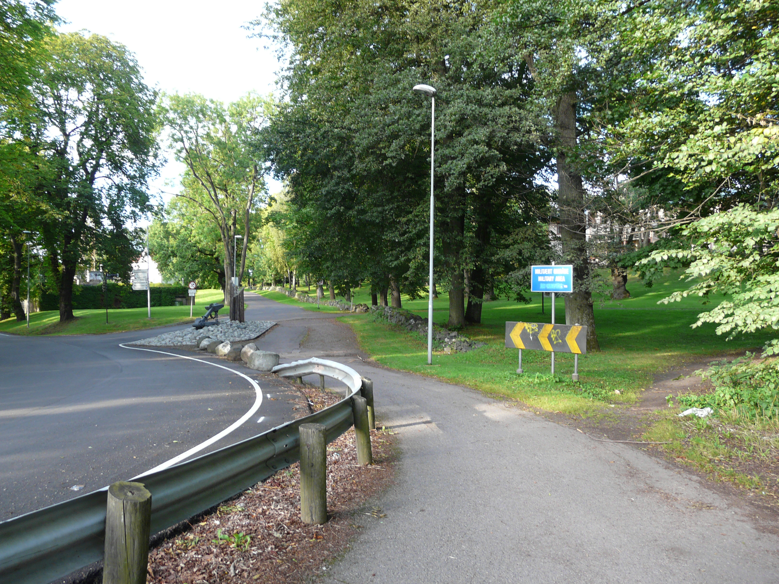 Anchor-monument in honor Datch paddle yacht "Dannebrog" (1880-1931). Horten, Norway. The yacht was scrapped in 1934 and seems the monument was installed in 1934.